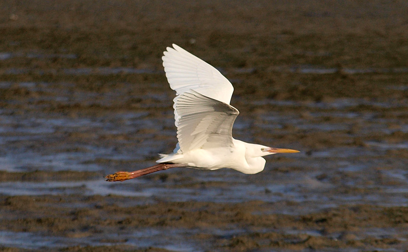 Western Reef Heron, white morph, photographed in al-Kokha on the Red Sea coast of Yemen